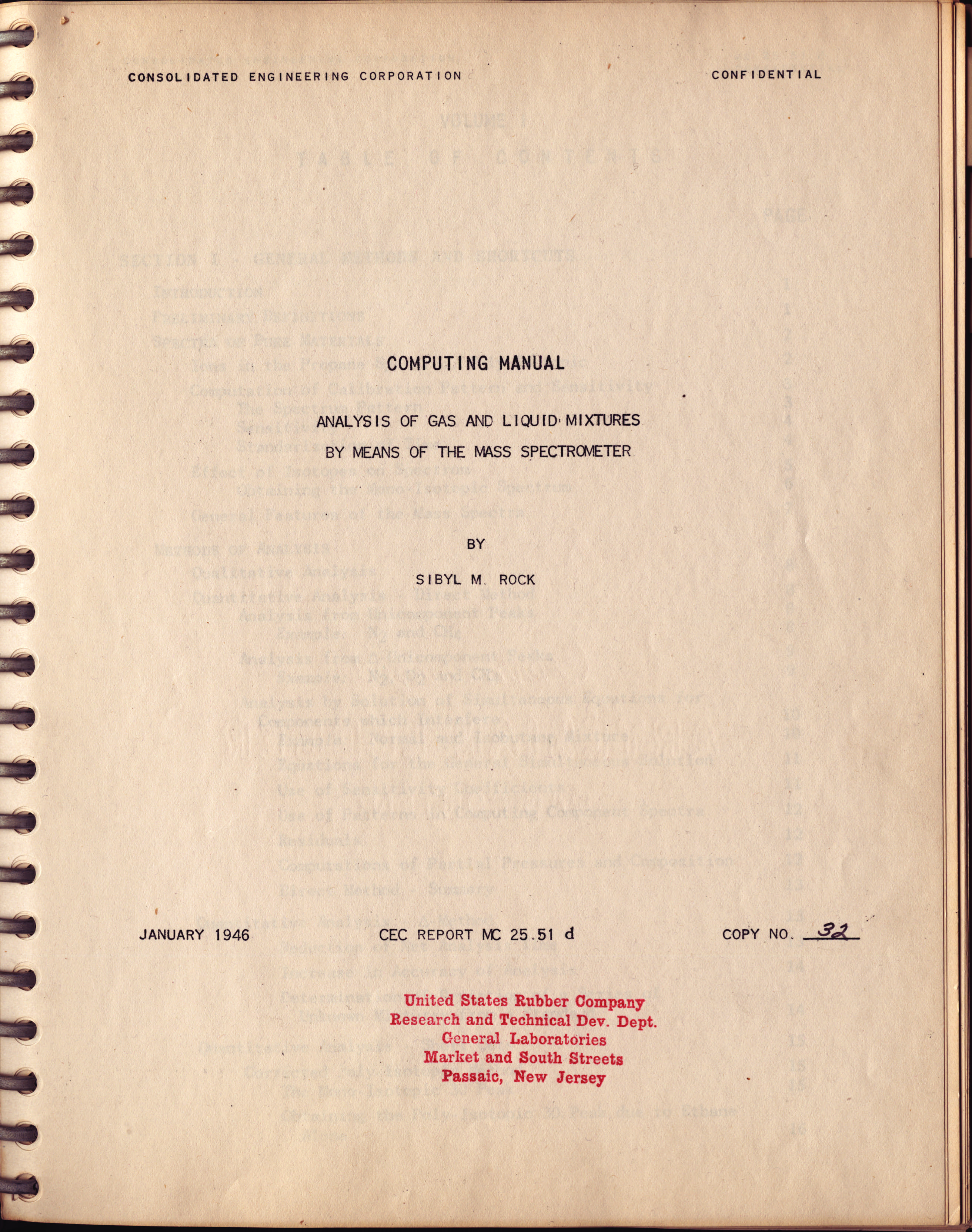 Title Page of "Computing Manual: Analysis of Gas and Liquid Mixtures by Means of the Mass Spectrometer" by Sybil M. Rock, January 1946, CEC Report MC 25.51d.